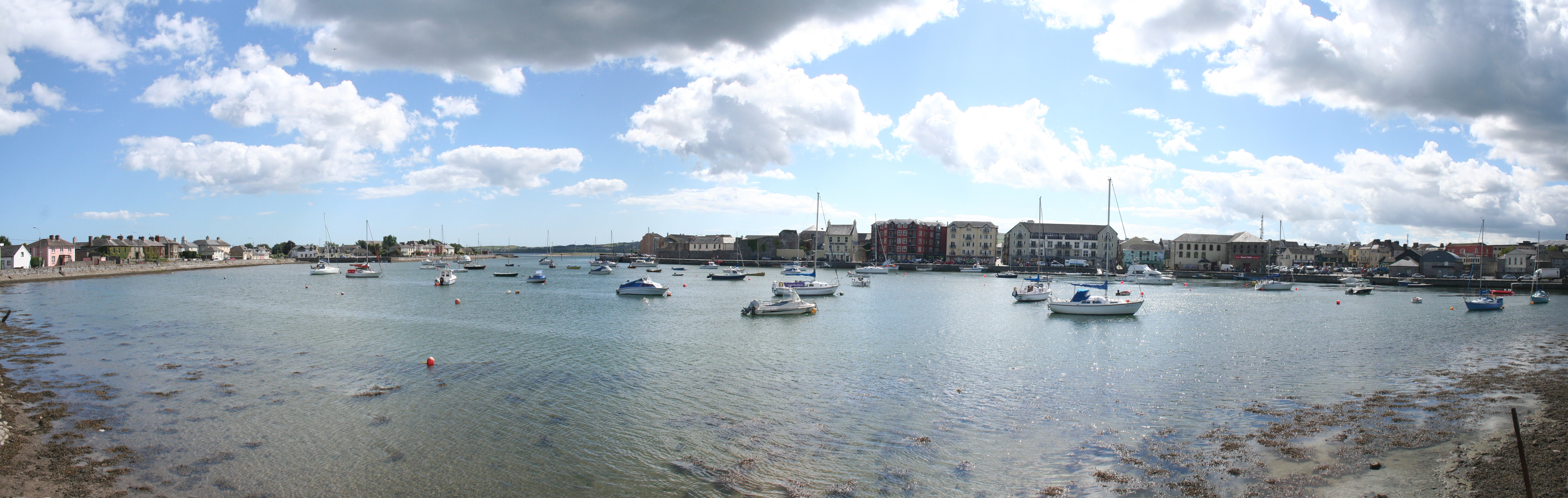 Dungarvan harbour